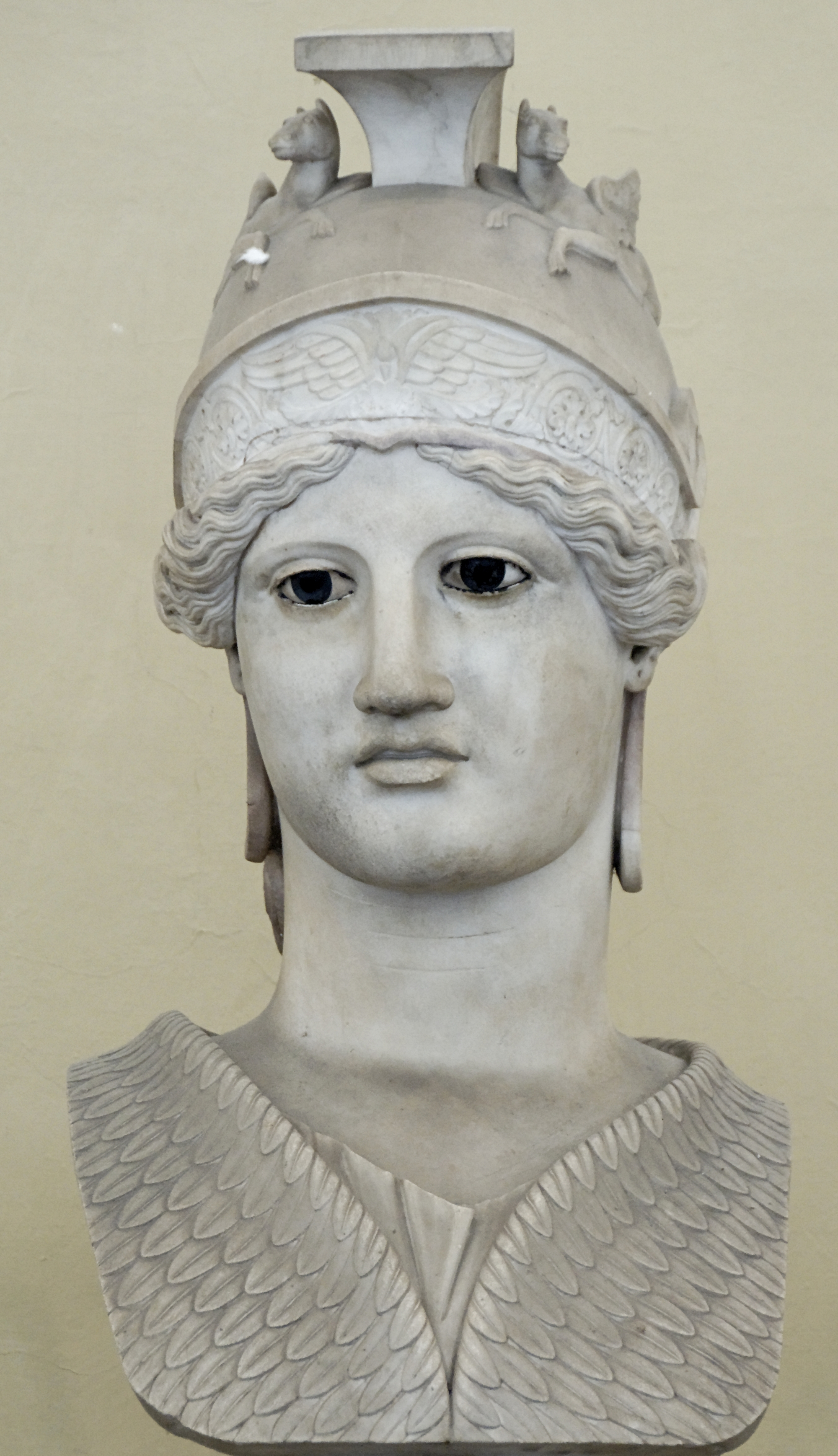 Colossal head of Athena, from an acrolith statue. Marble, Roman artwork after the model of Athena Parthenos. Found at Tor Paterno by Robert Fagan